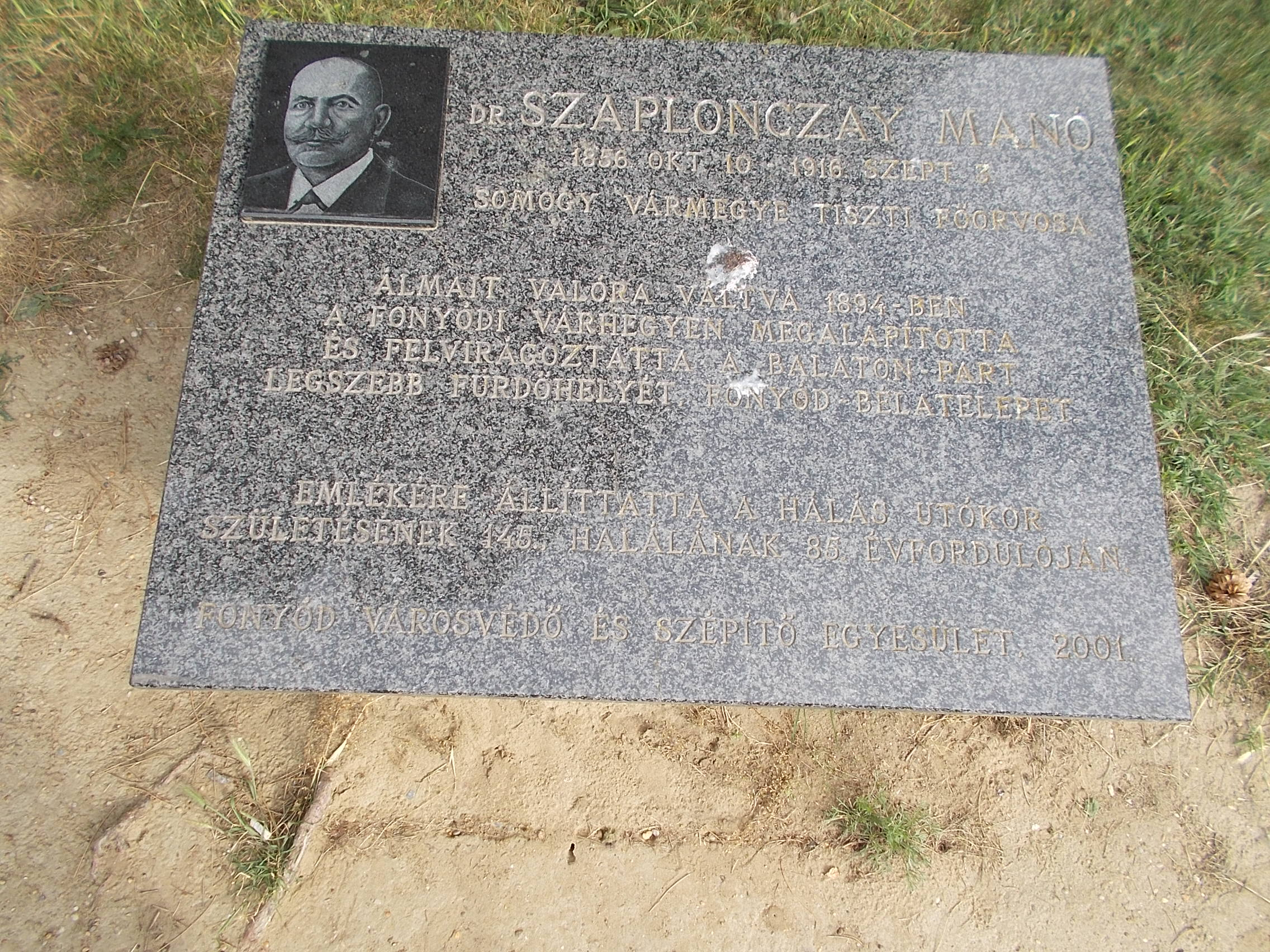 Listed memorial to Manó Szaplonczay. Plaque with relief. Obelisk. Classic. Bronze, concrete. - Bartók Béla Street, Bélatelep, Fonyód, Somogy County, Hungary.